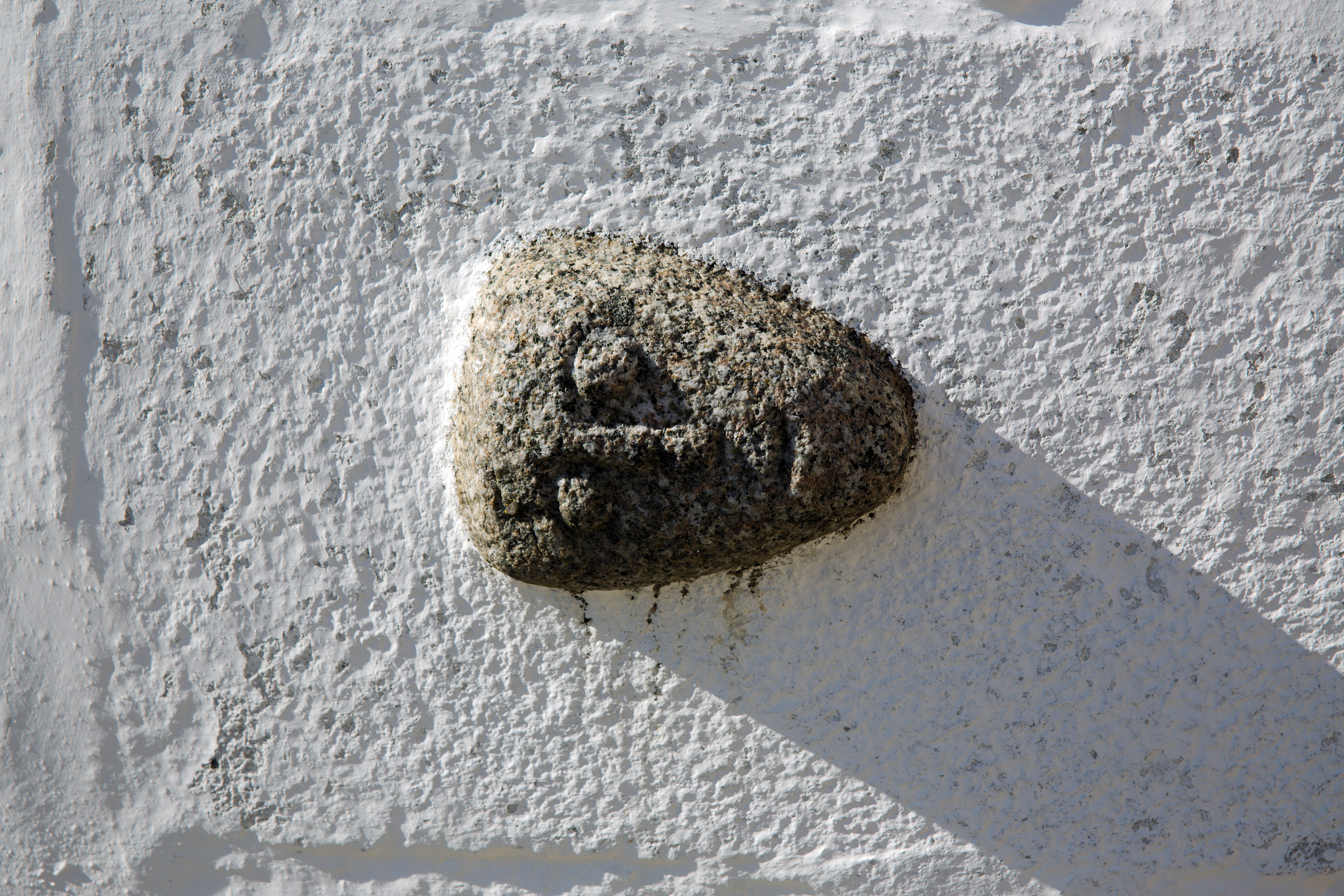 In Tånum church porch's eastwall is there a relief ashlar with head